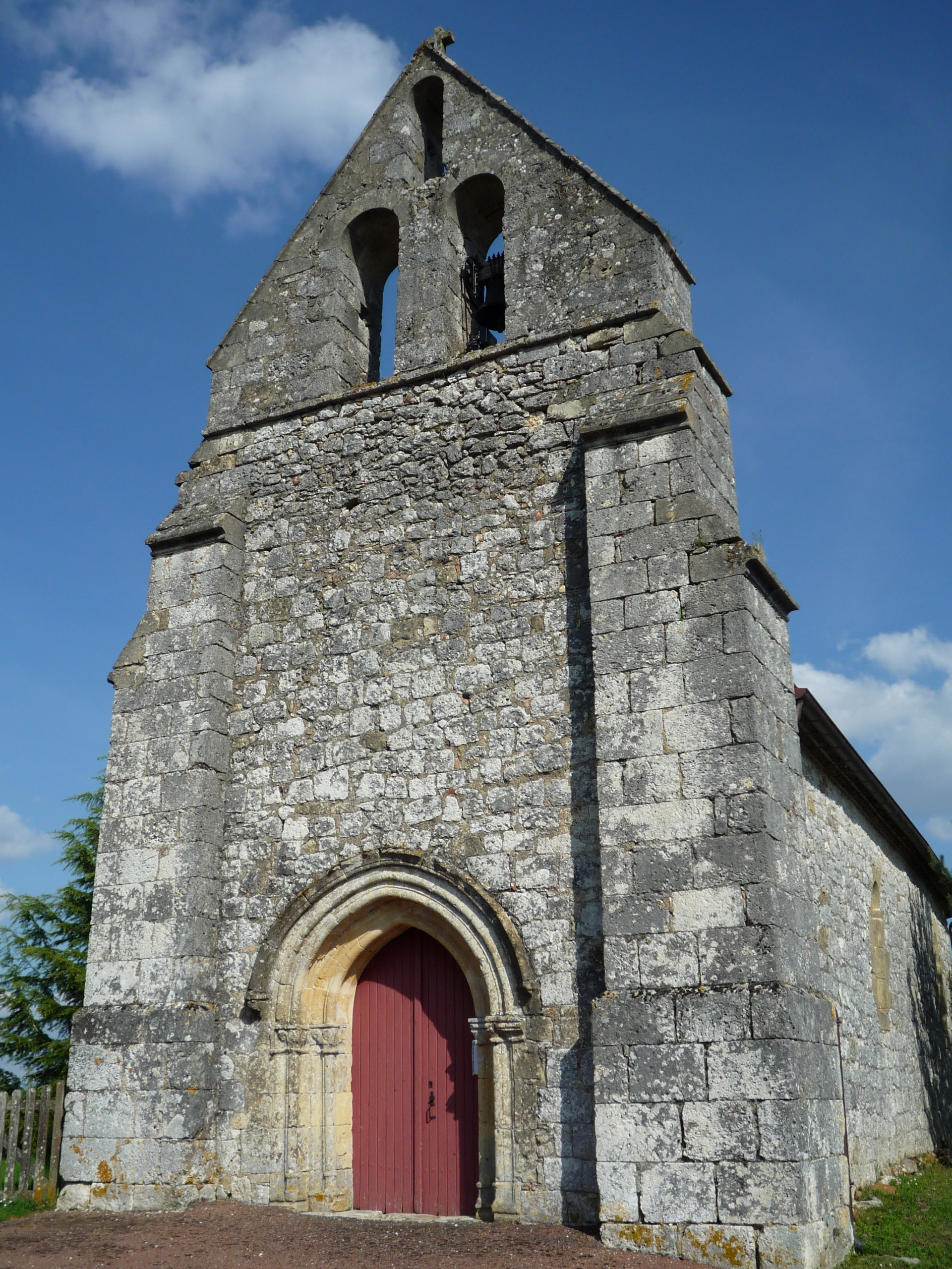 Verdon (Dordogne)